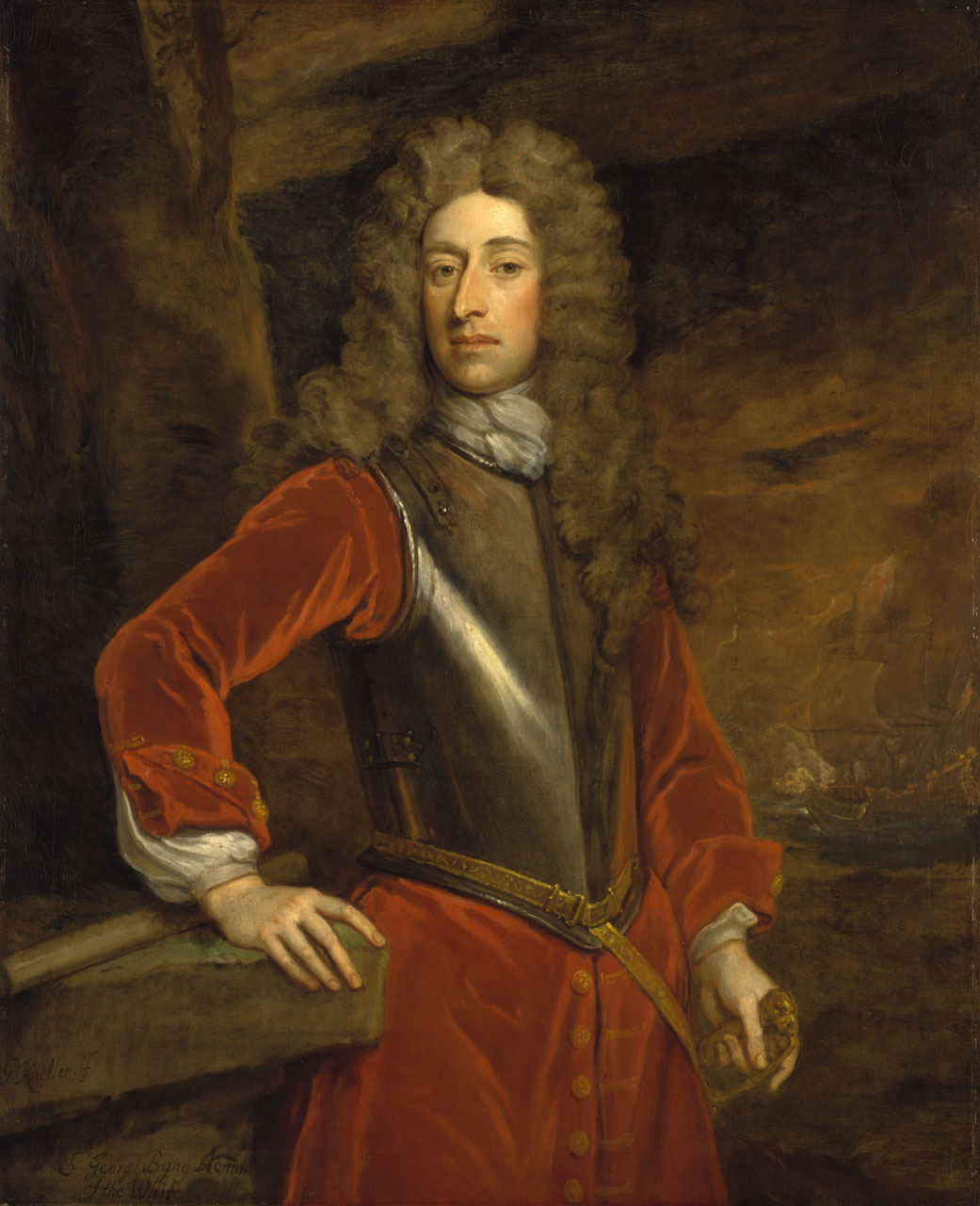 Portrait of George Byng, 1st Viscount Torrington (1663-1733)